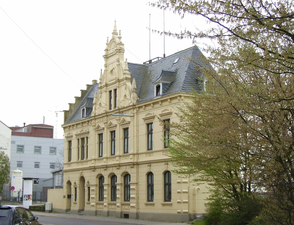 The former seamen's office in Bremerhaven, Germany